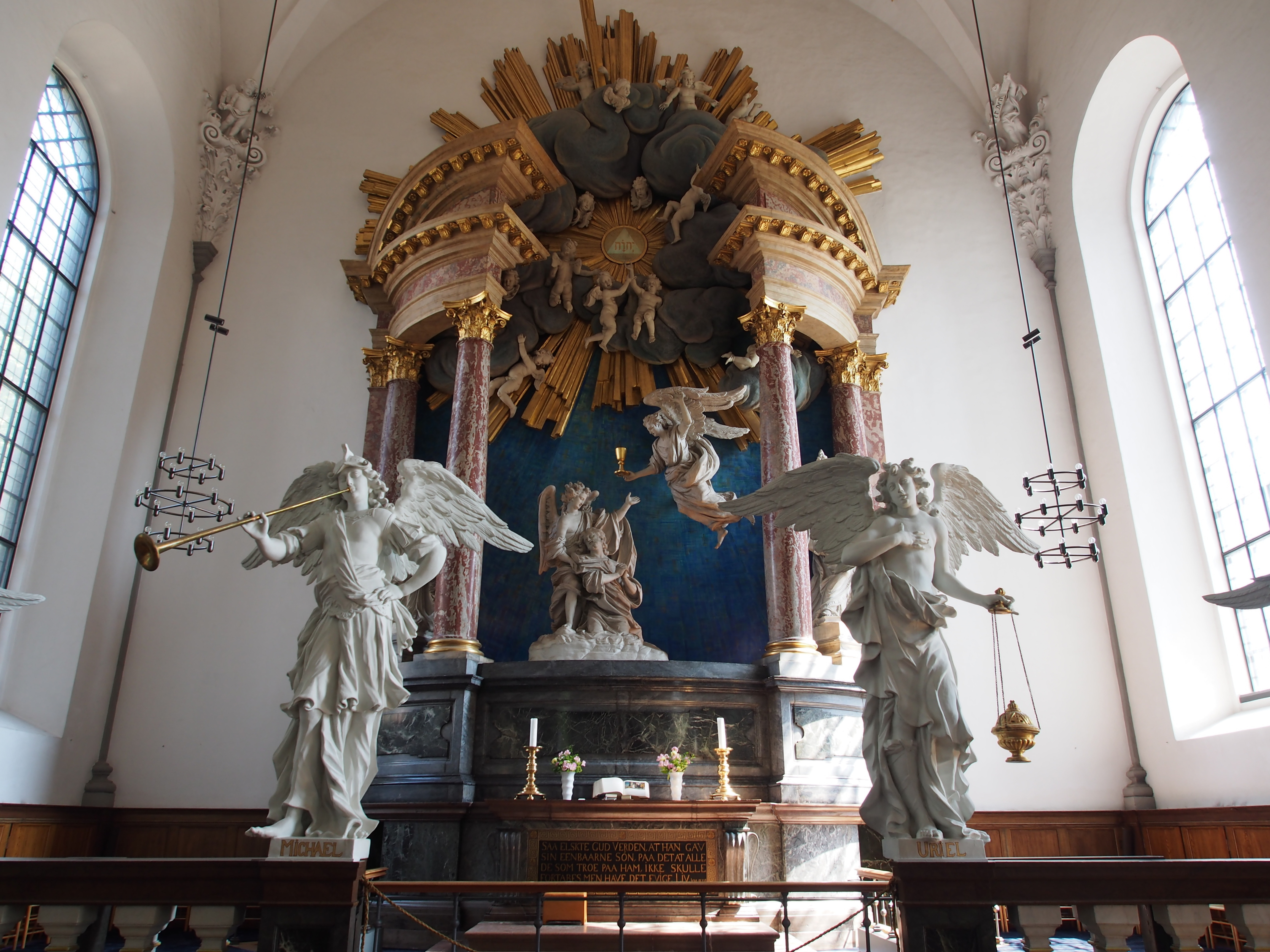 Photographed at the Copenhagen, Denmark.